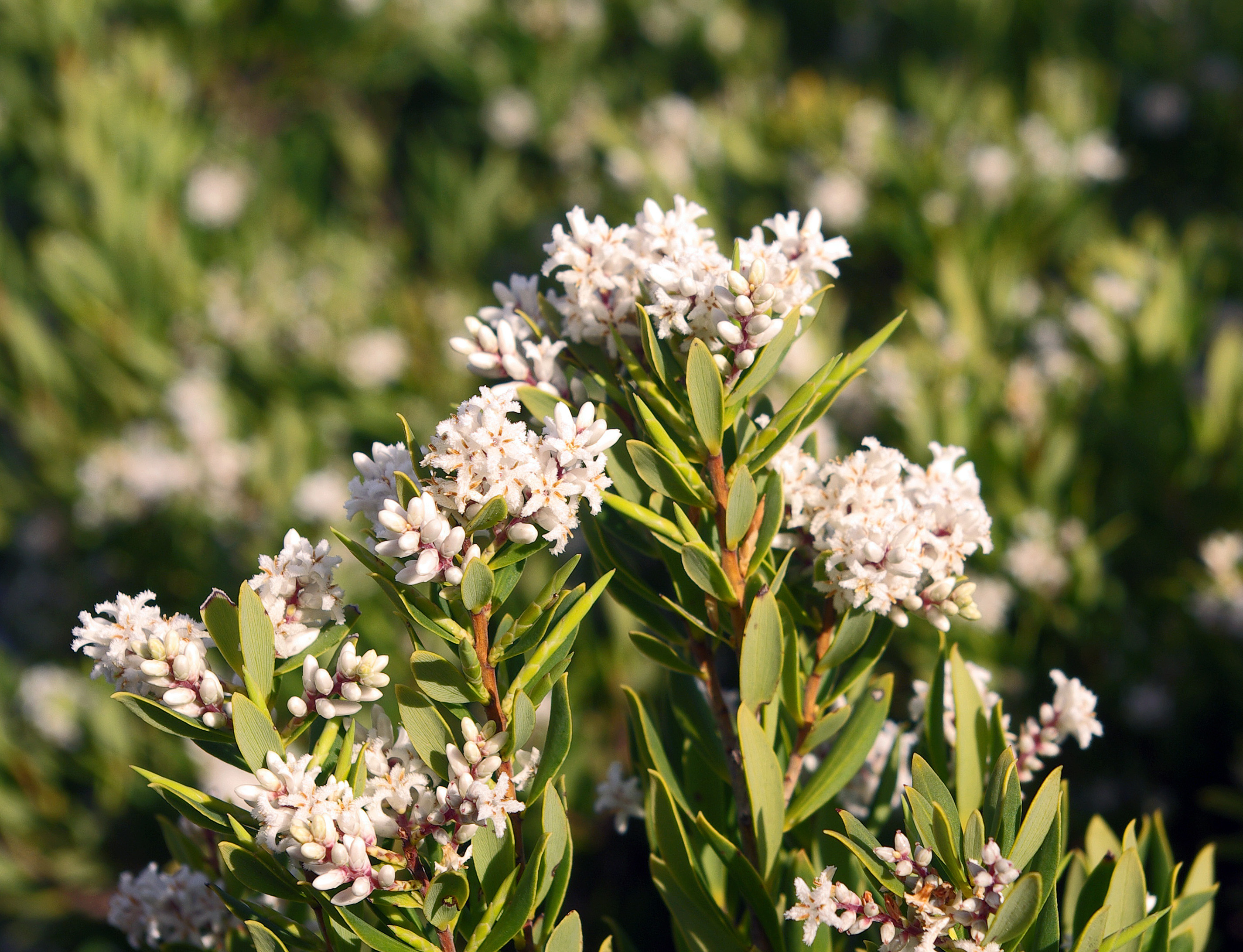 Leucopogon parviflorus at Point Lonsdale.